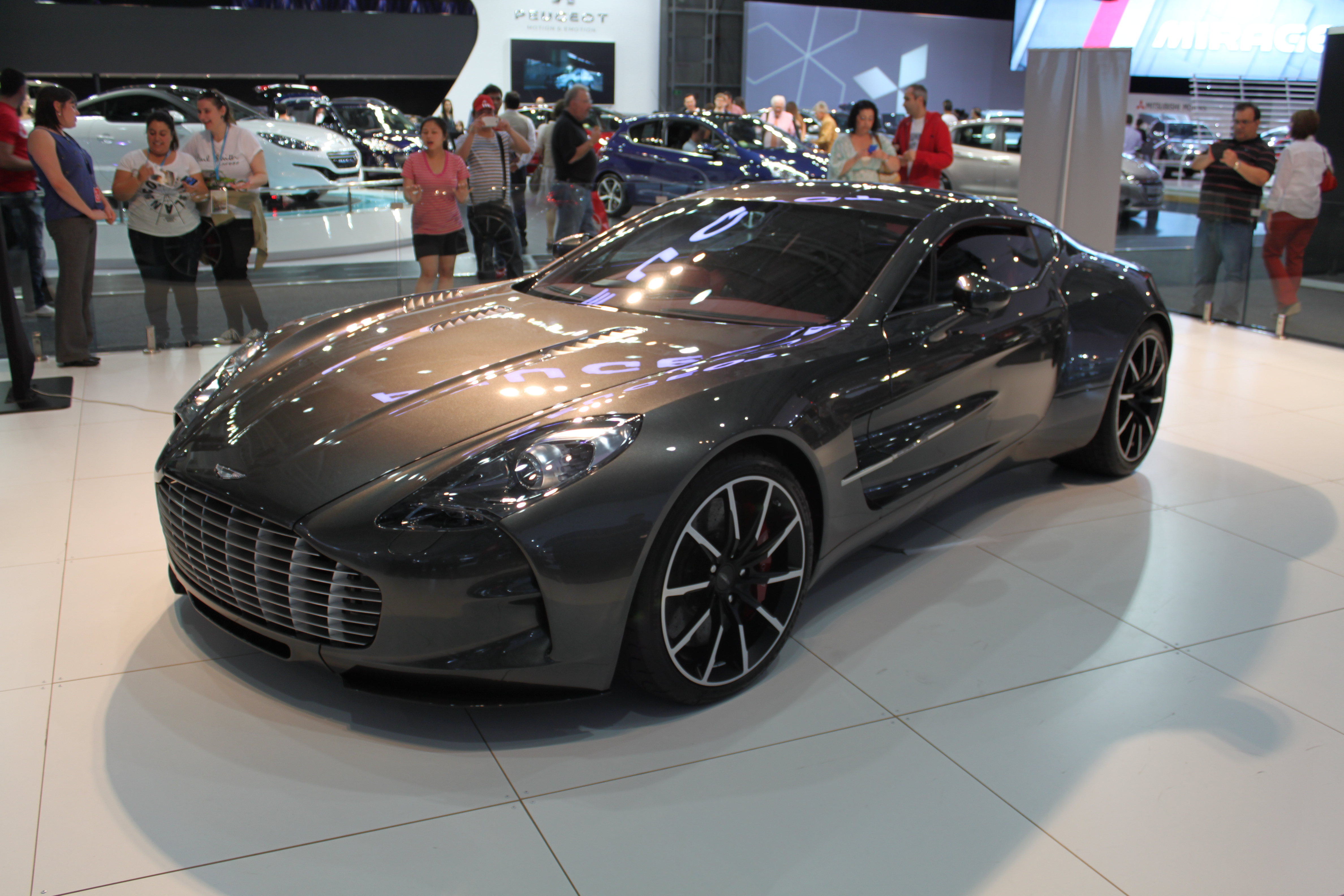 Aston Martin One-77